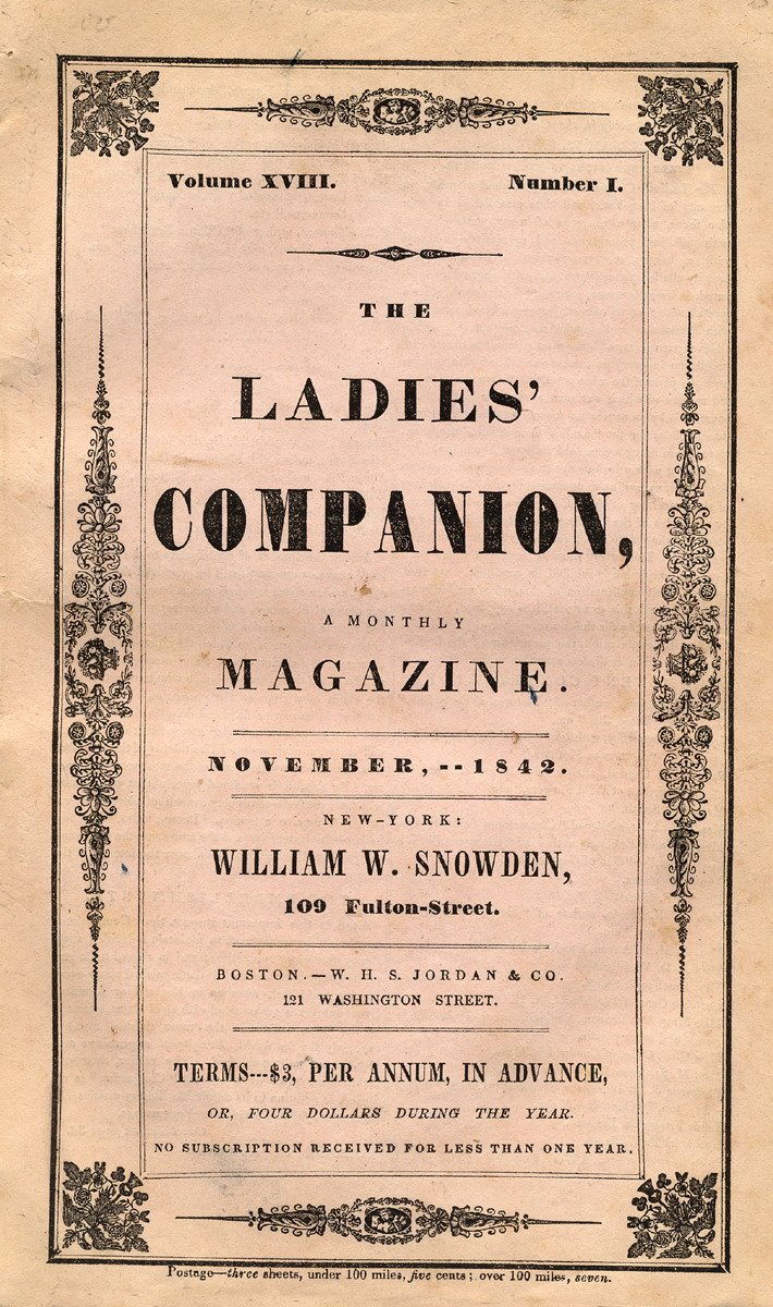 The Ladies' Companion, November, 1842, "The Mystery of Marie Roget" by Edgar Allan Poe.